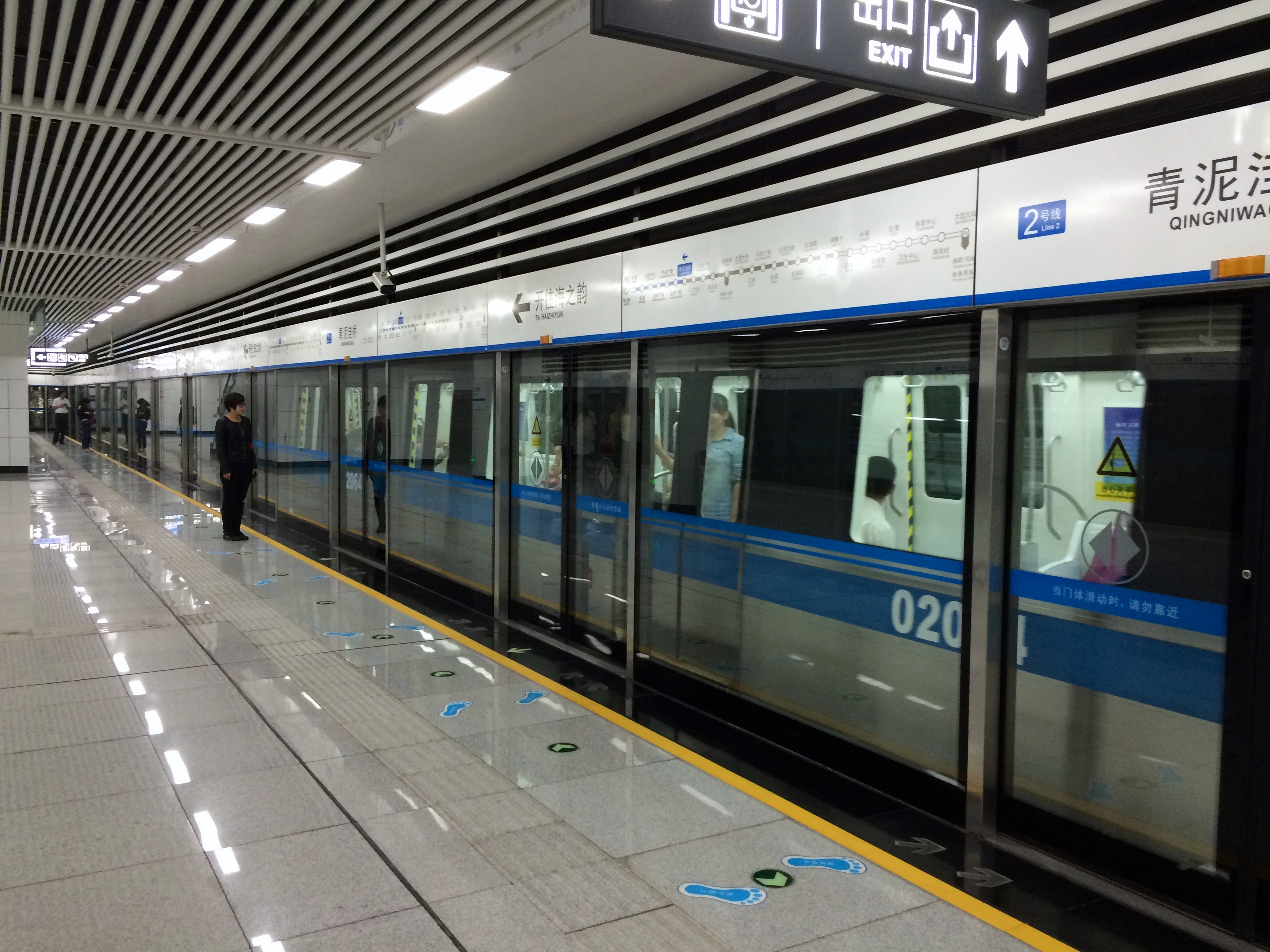 Dalian Metro Line 2, Qingniwaqiao Station, Dalian, China